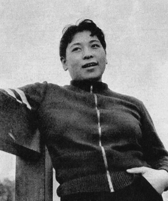 Keiko Tanaka (Ikeda)